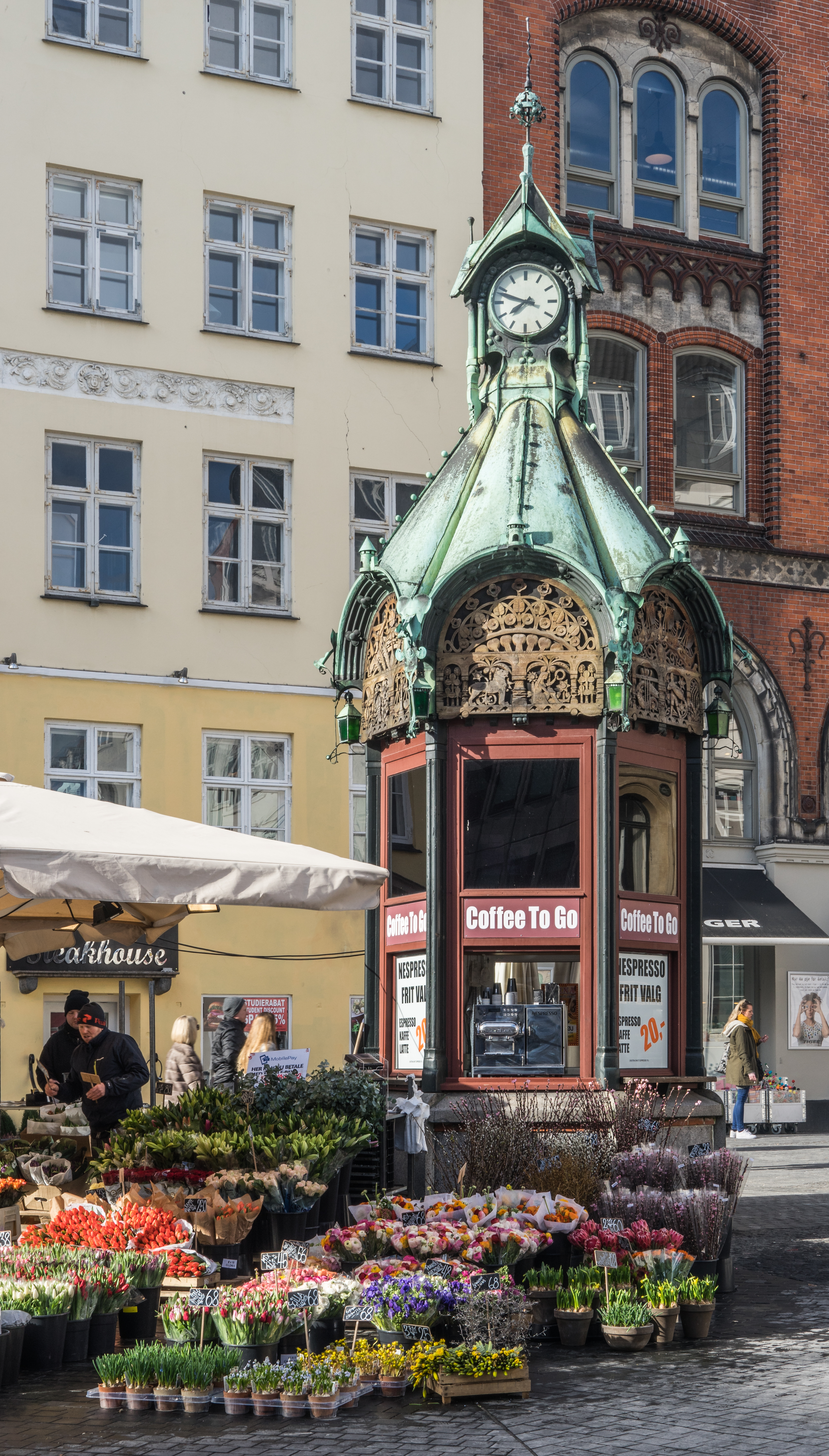 a "coffee-to-go" kiosk in Copenhagen, Denmark.